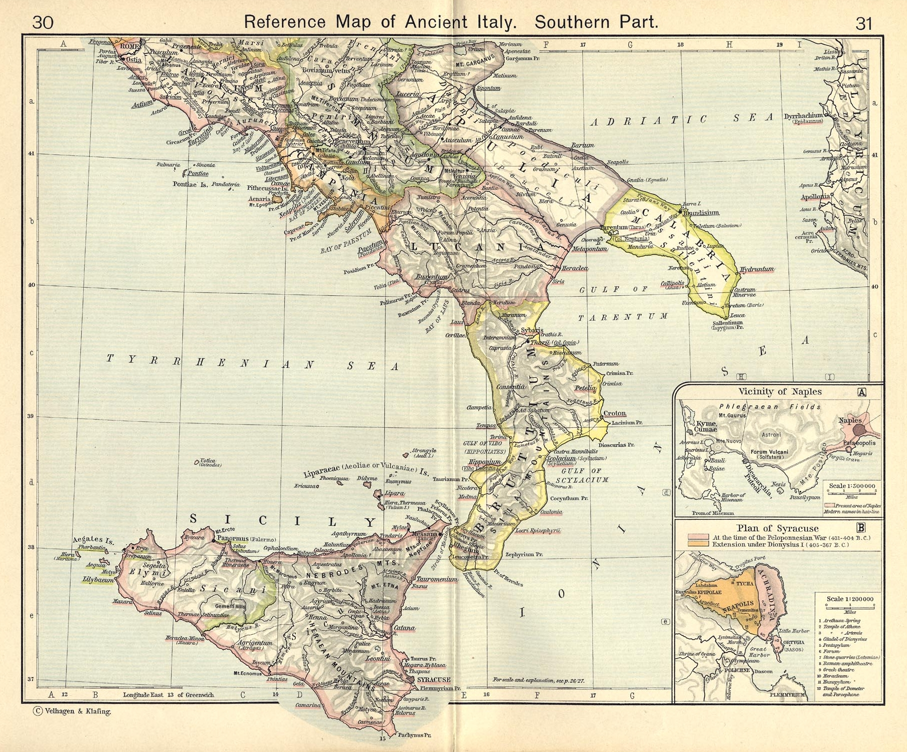 Reference Map of Ancient Italy, Southern Part